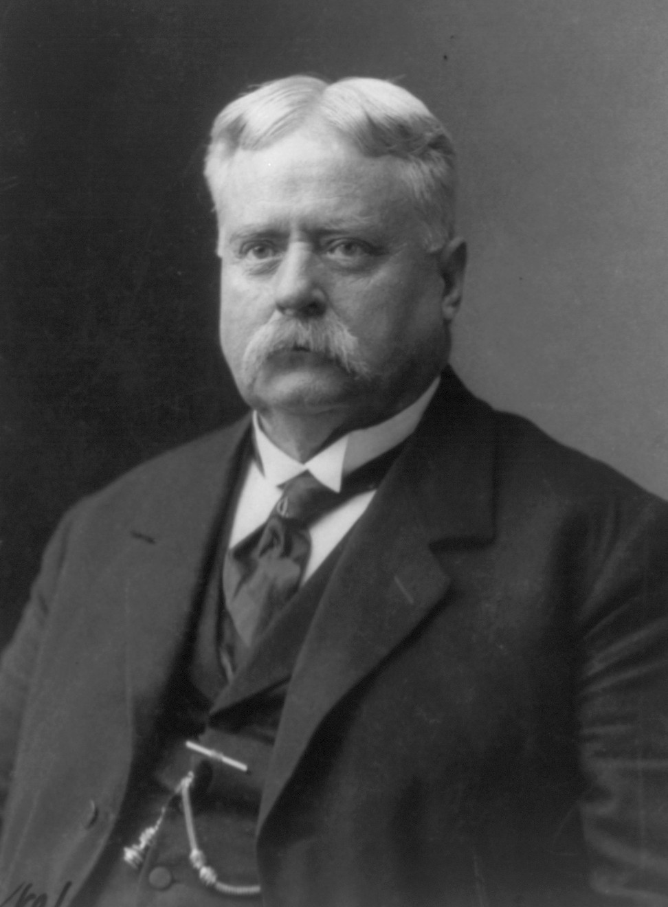 Fitzhugh Lee: Head and shoulders, facing slightly left.